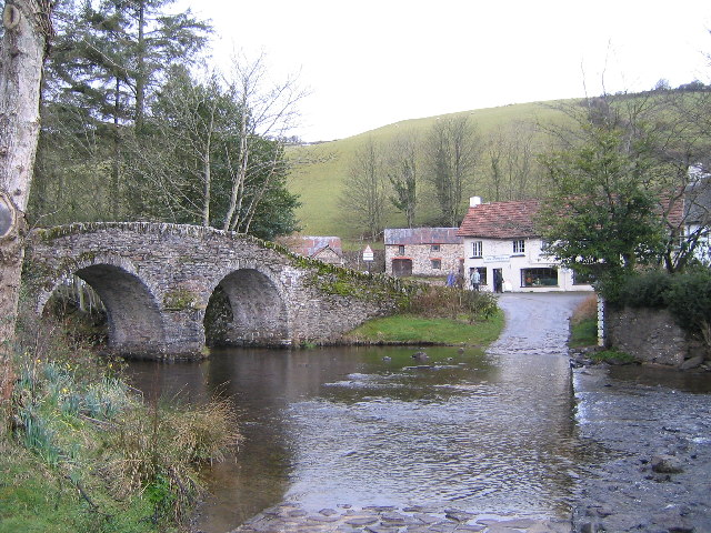 Lorna Doone Farm, Malmsmead. The stream here forms the boundary between the counties of Devon and Somerset, and between the civil parishes of Brendon and Countisbury (in Devon) and Oare (in Somerset). The farm is on the Devon side.